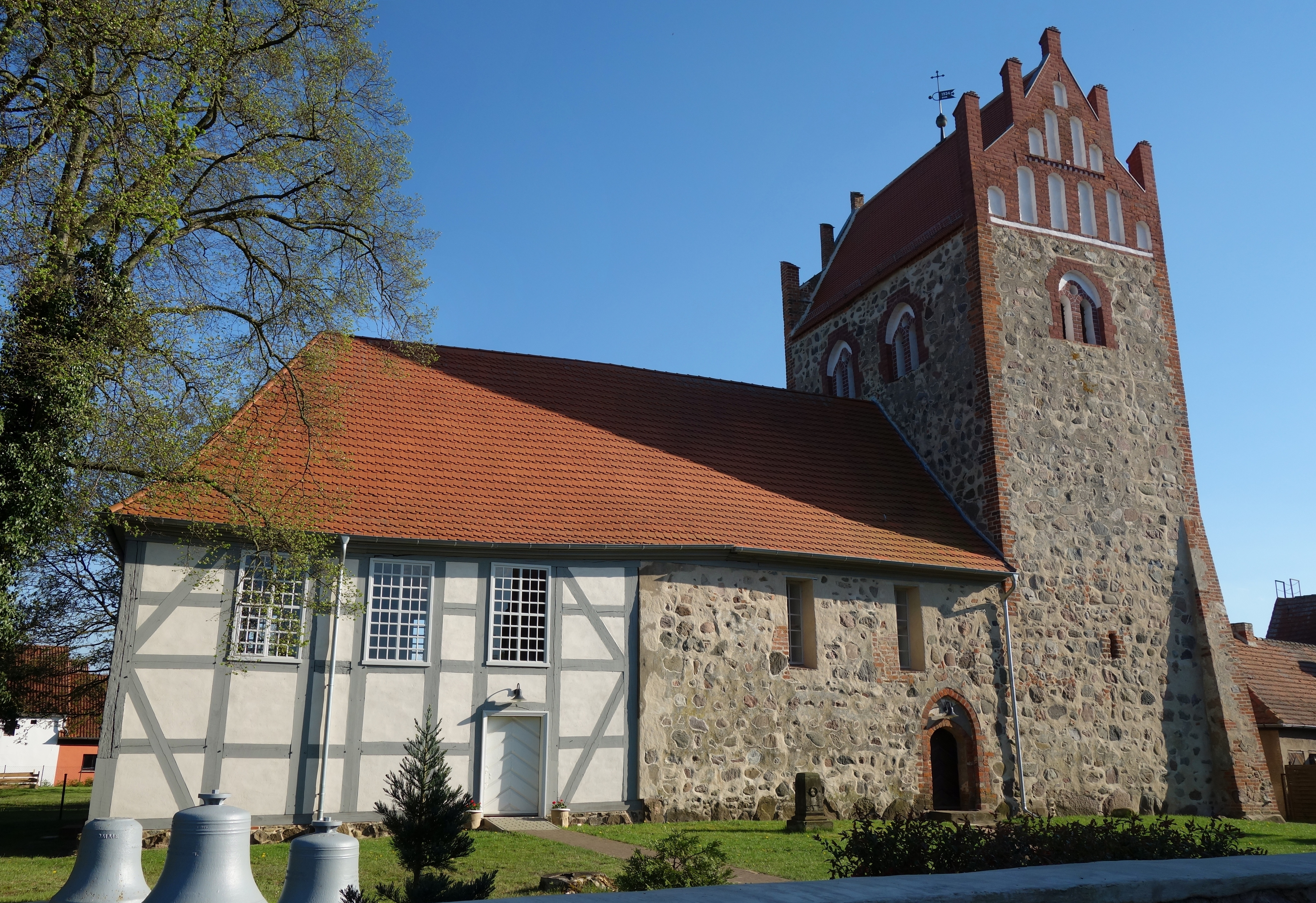 North-north-eastern view of church in Wutike, Gumtow municipality, Prignitz district, Brandenburg state, Germany